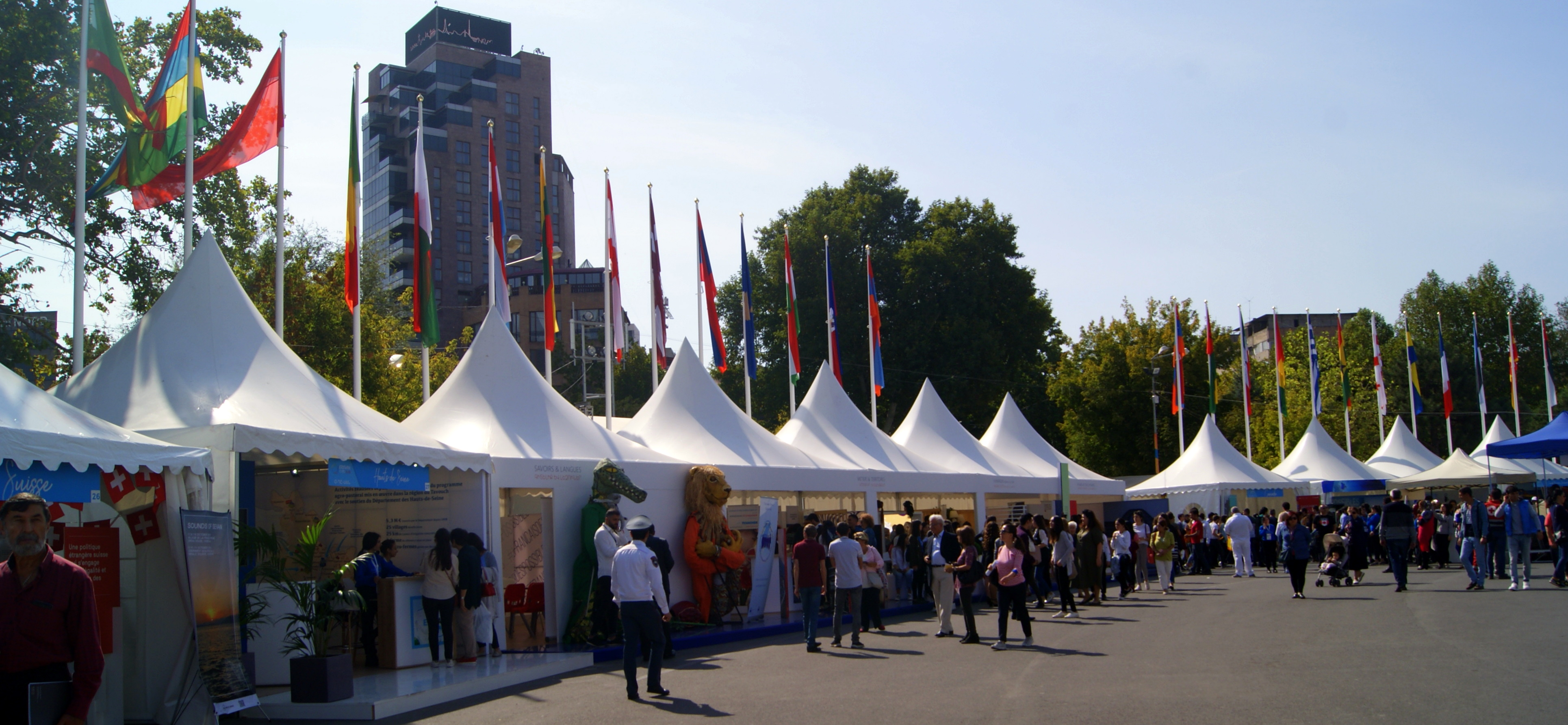 Village de la francophonie during Summit of La Francophonie 2018 held in Yerevan